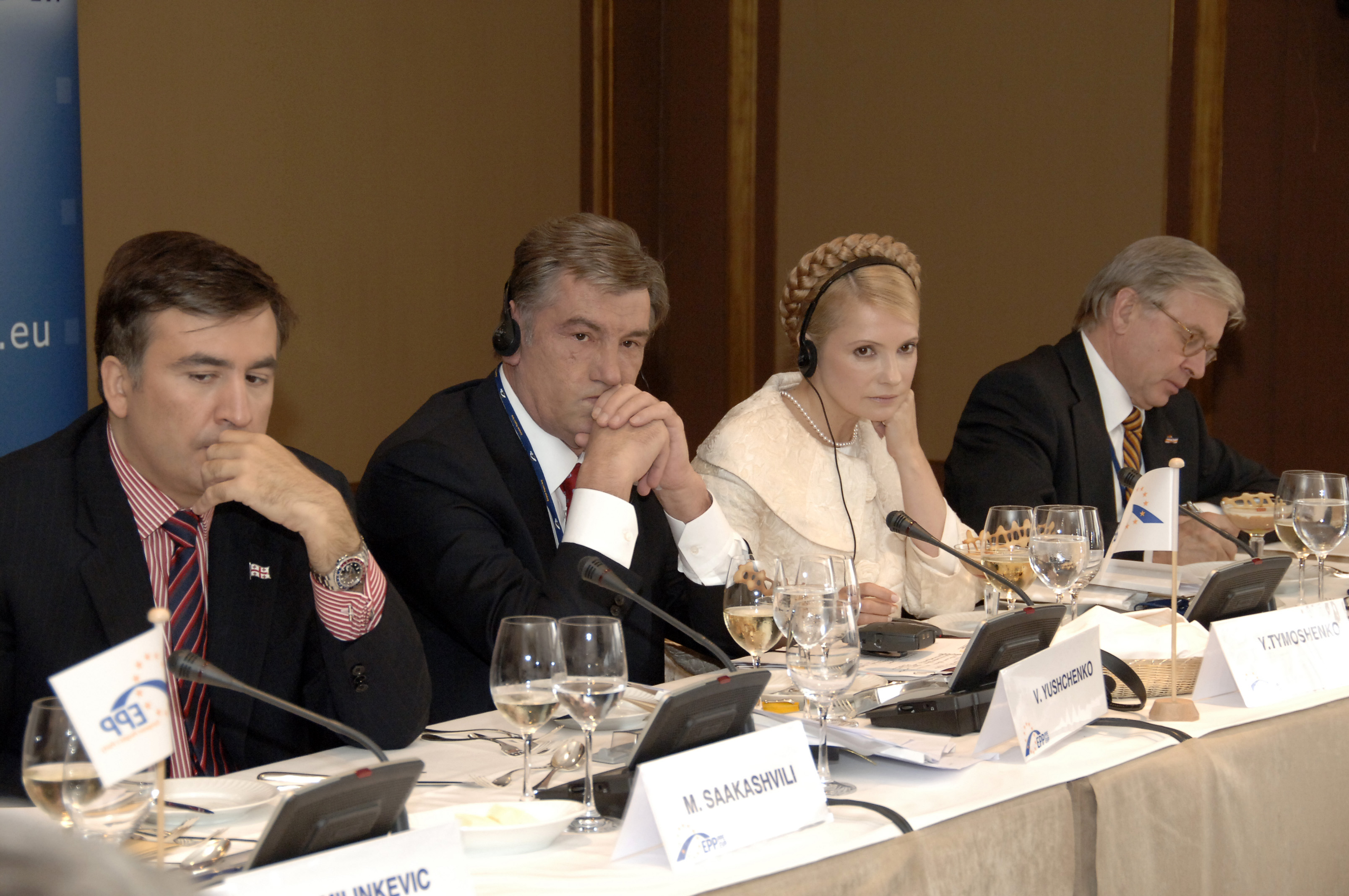 EPP Summit Lisbone 18 October 2007